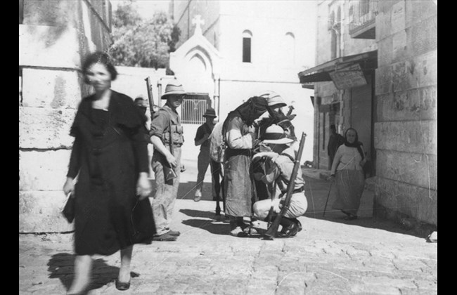 Khalil Raad, British soldiers frisk a Palestinian man in Jerusalem, late 1930s